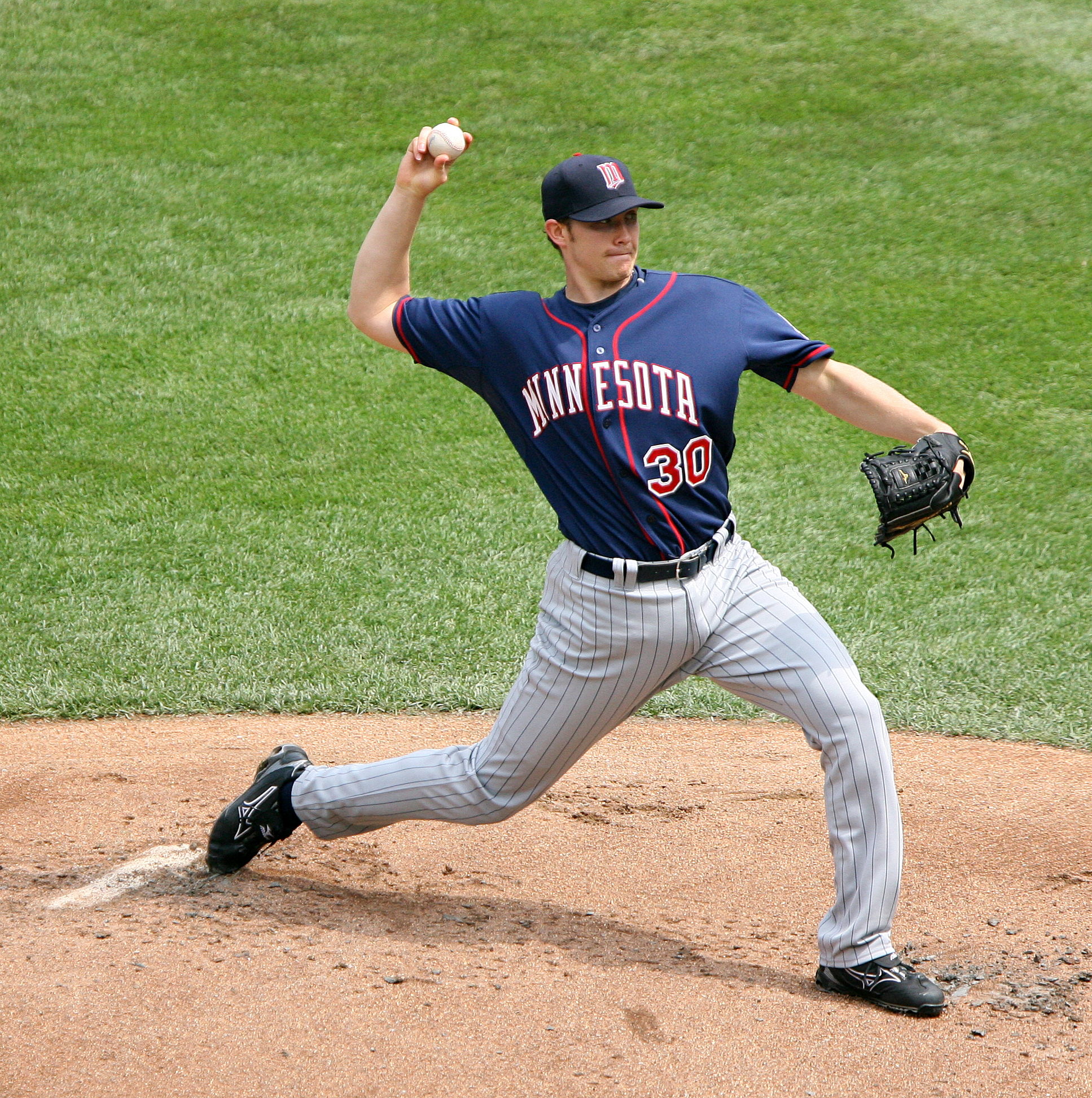 Scott Baker during his tenure with the Minnesota Twins.